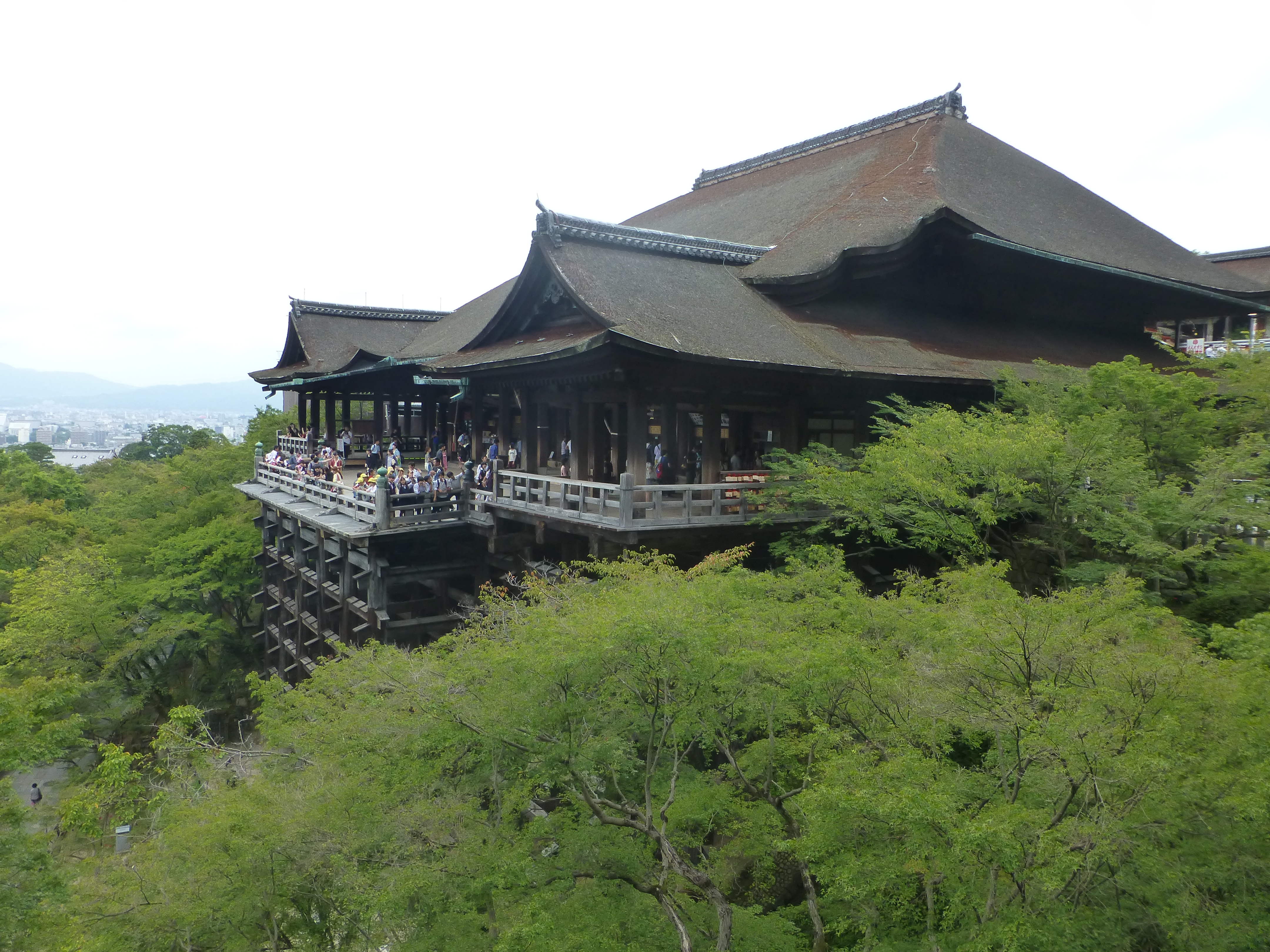 Main hall of Kiyomizu-dera temple, Kyoto, Japan. UNESCO world heritage site.